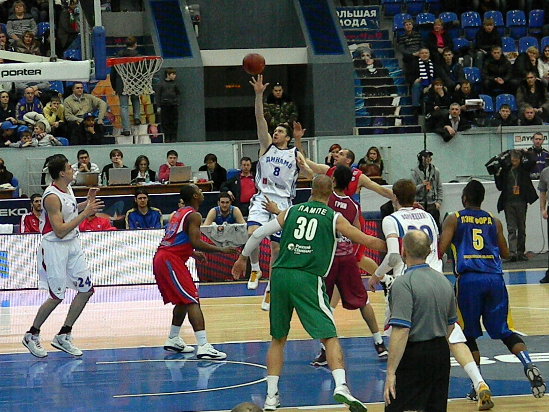 Evgeny Voronov, russian Basketball player, at all-star PBL game 2011